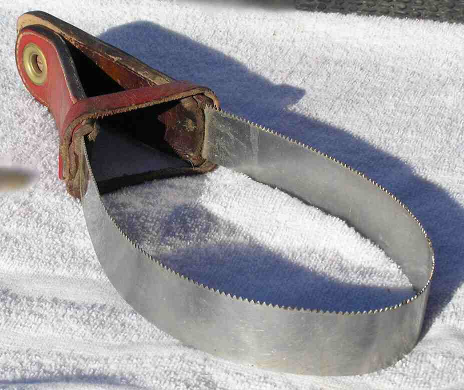 A shedding blade has dull metal teeth that help remove the shedding winter hair coat of a horse or other short-haired animal. The shedding blade may be flipped over and the smooth side used as a sweat scraper in warm weather. Unlike a brush or a rubber currycomb, on a summer coat, the metal teeth may cause split ends in the hair or irritate the animal's skin, so it is a grooming tool that cannot be used for all purpose general grooming